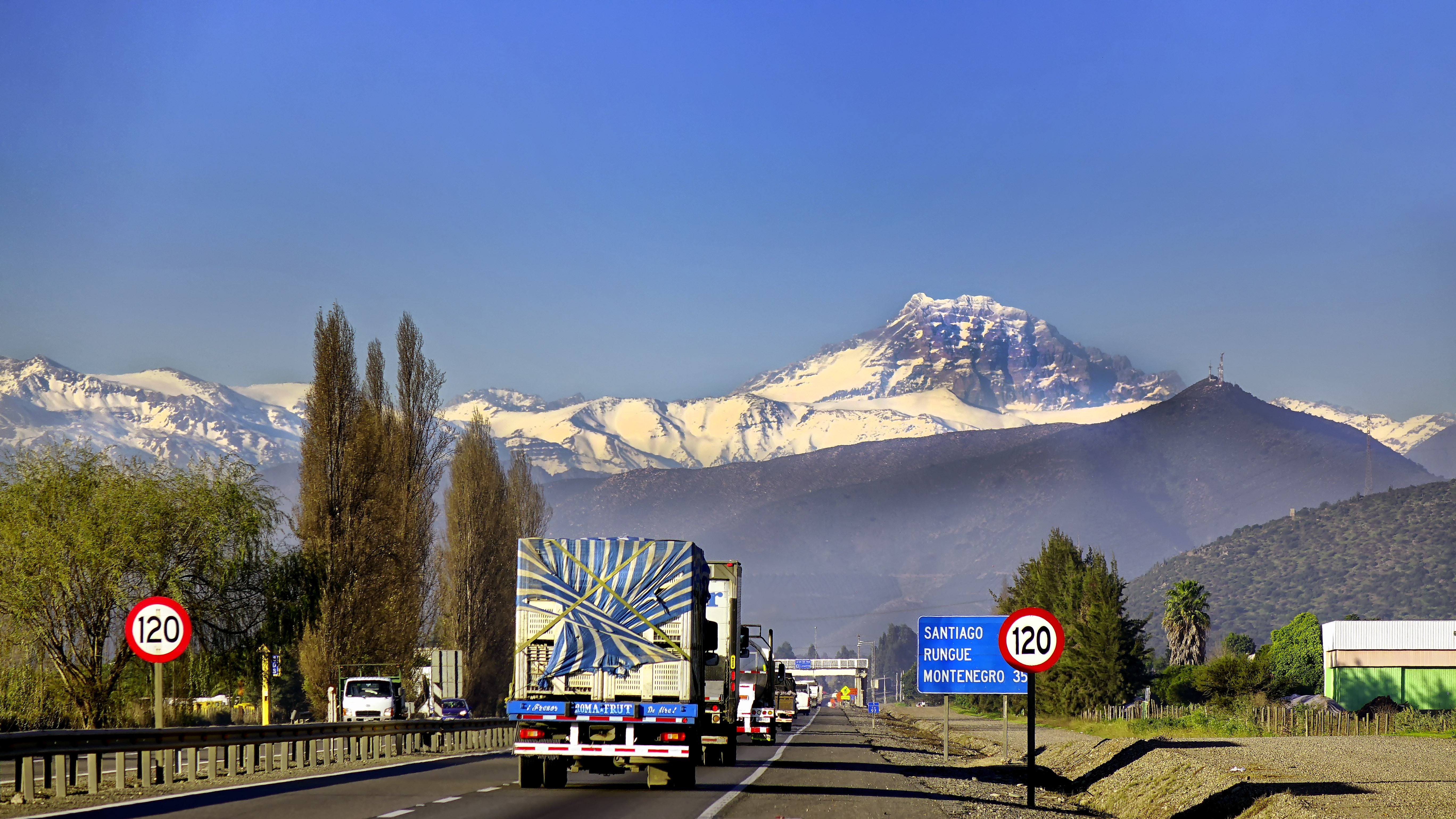 View of Mount Aconcagua from the town of Ocoa, in the Region of Valparaíso, Chile.